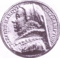 Elizabeth Brooke, 2nd wife of William Parr, Marquis of Northampton, sister-in-law of Katherine Parr